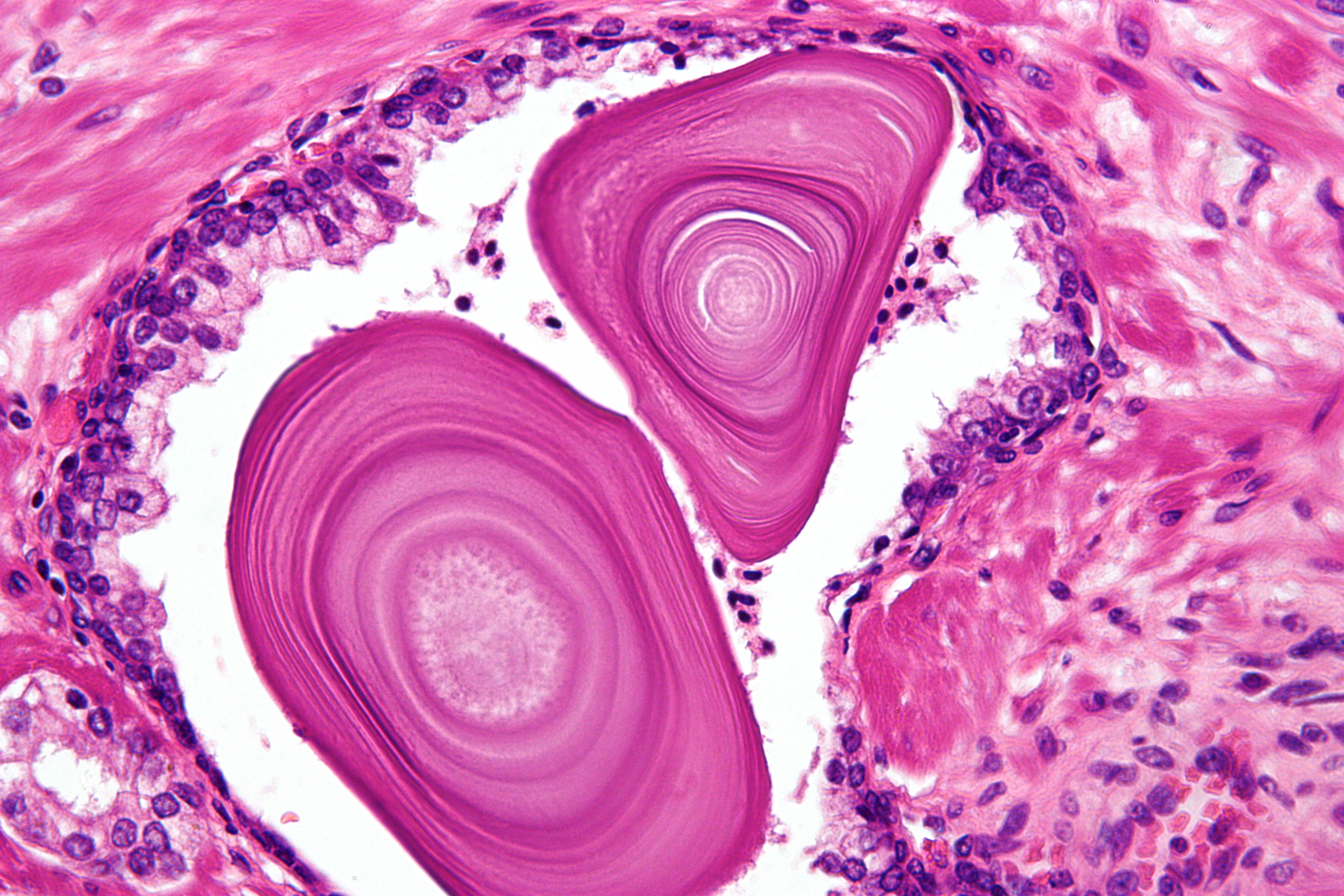 High magnification micrograph of corpora amylacea, a benign finding in prostatic glands. H&E stain. Prostatectomy specimen. Related images High mag. Intermed. mag. Low mag.